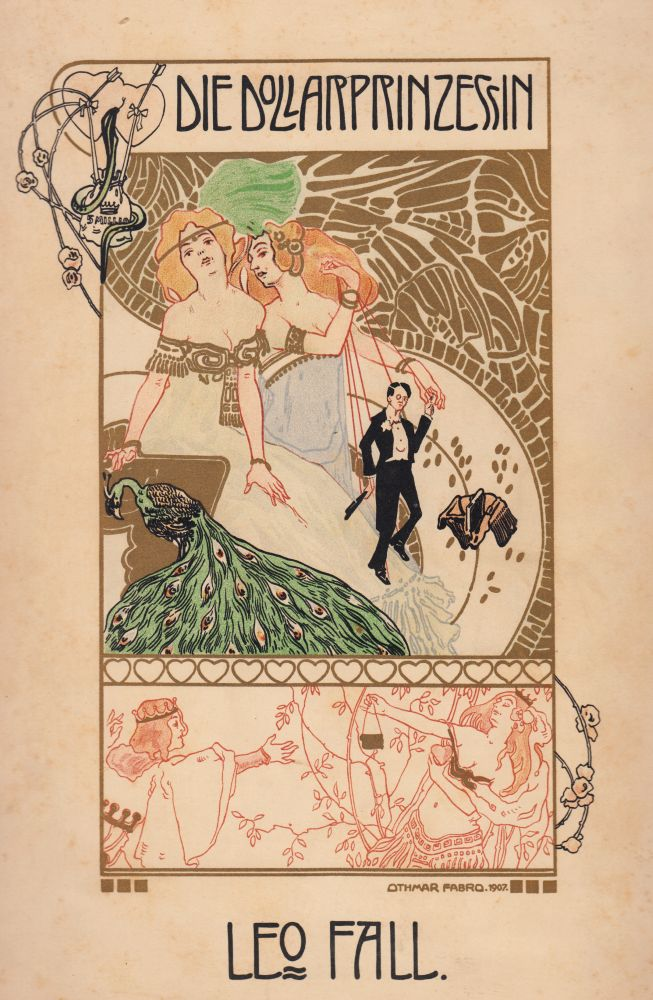 Title page of the vocal score to Leo Fall's operetta Die Dollarprinzessin